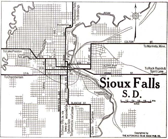 Map of Sioux Falls, SD, USA (from: Automobile Blue Book, 1920, Vol. 10)